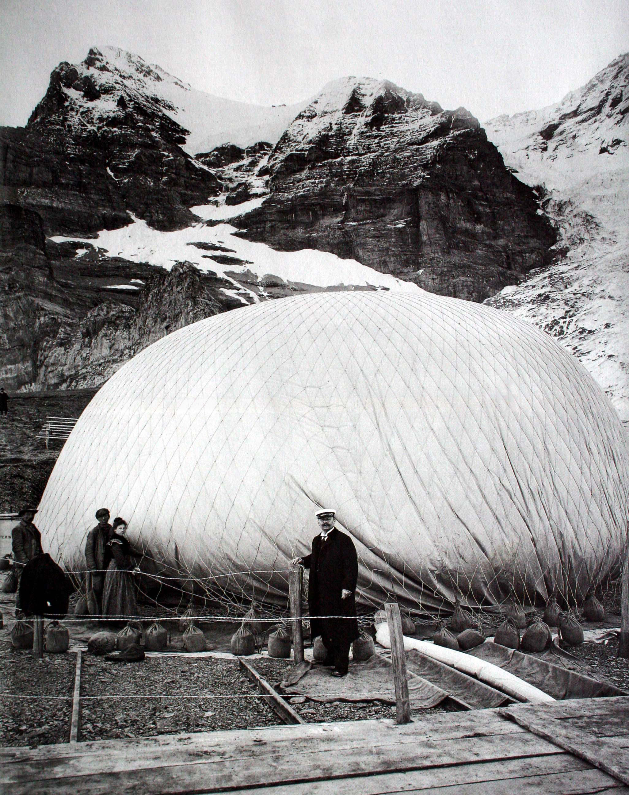 Eduard Spelterini with his balloon Stella at the station "Eigergletscher" of the Kleine Scheidegg, in 1904.